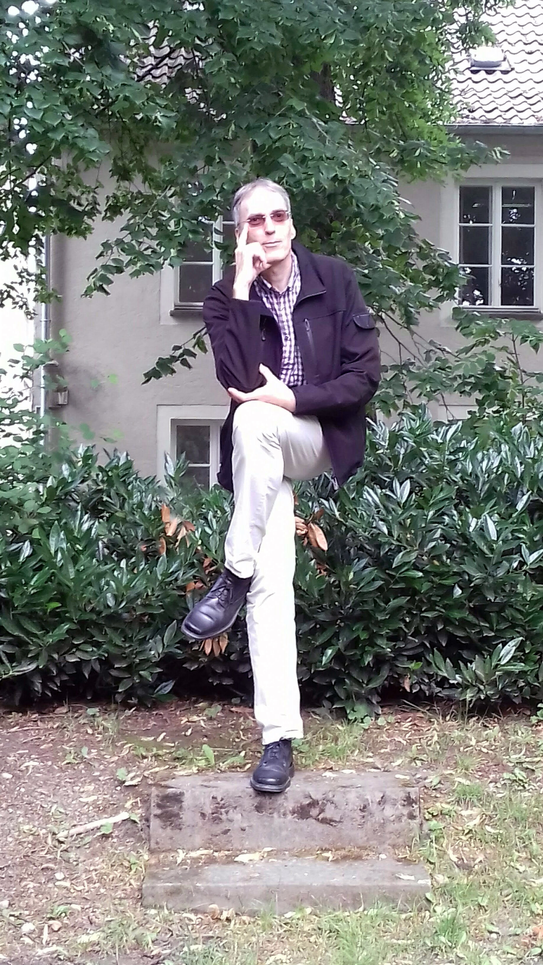 Frank-Manuel Peter performing "Monuments Man (I)", Schloßpark Freudenthal, Uslar, July 17th, 2019.